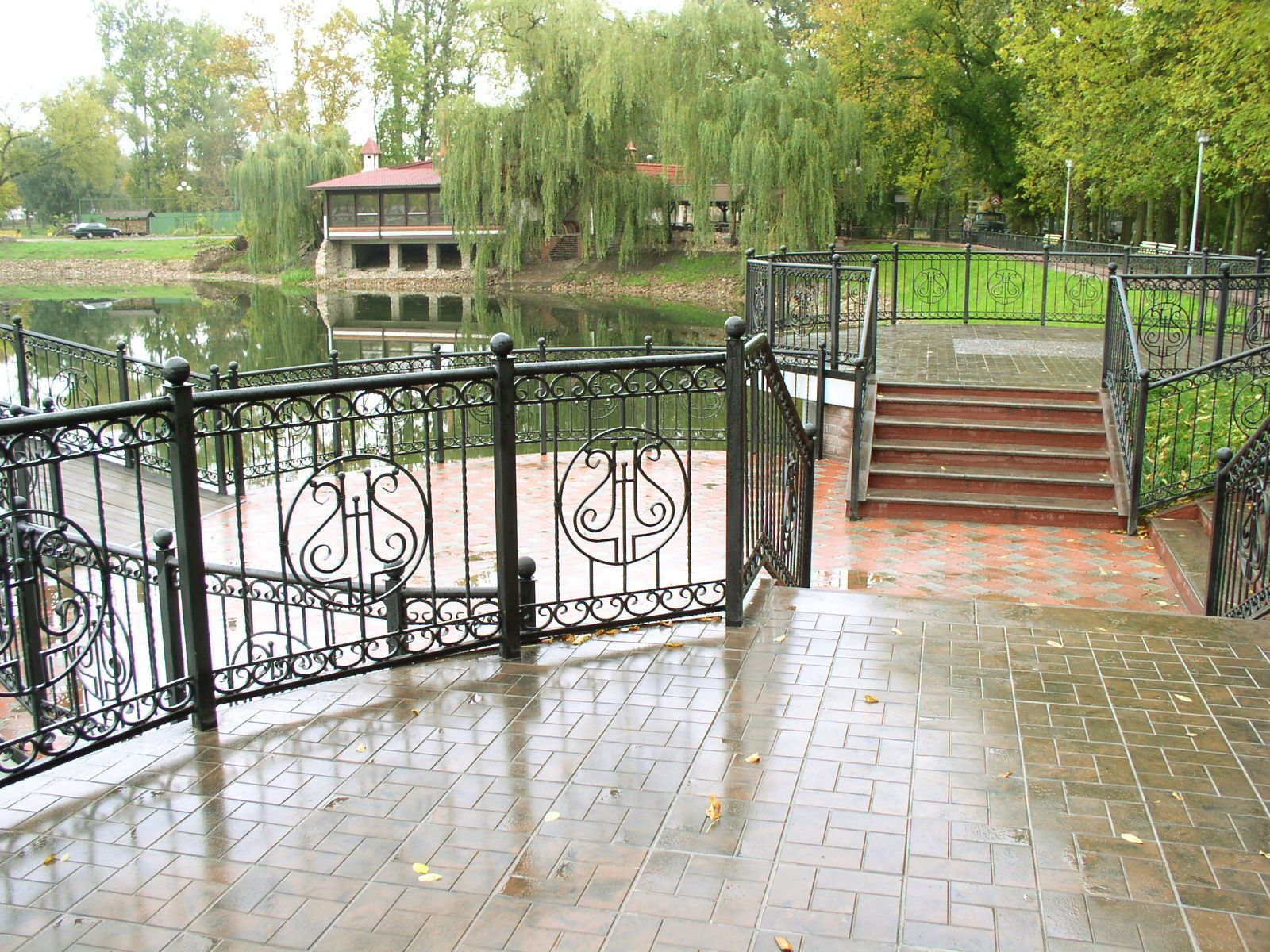 I took the picture myself in October 2004